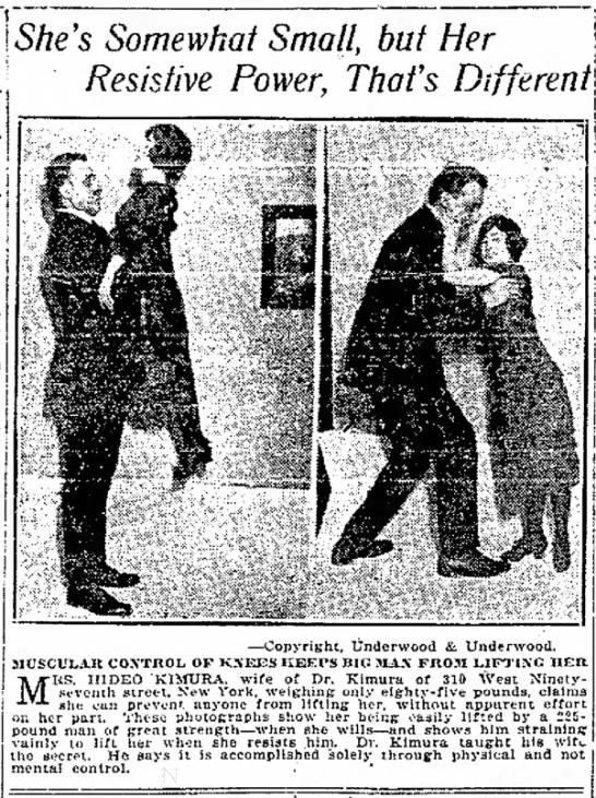 Komako Kimura and Hideo Kimura demonstrating a self-defense technique, 1921